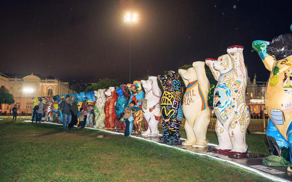 United Bears in Georgetown, Penang (Malaysia)